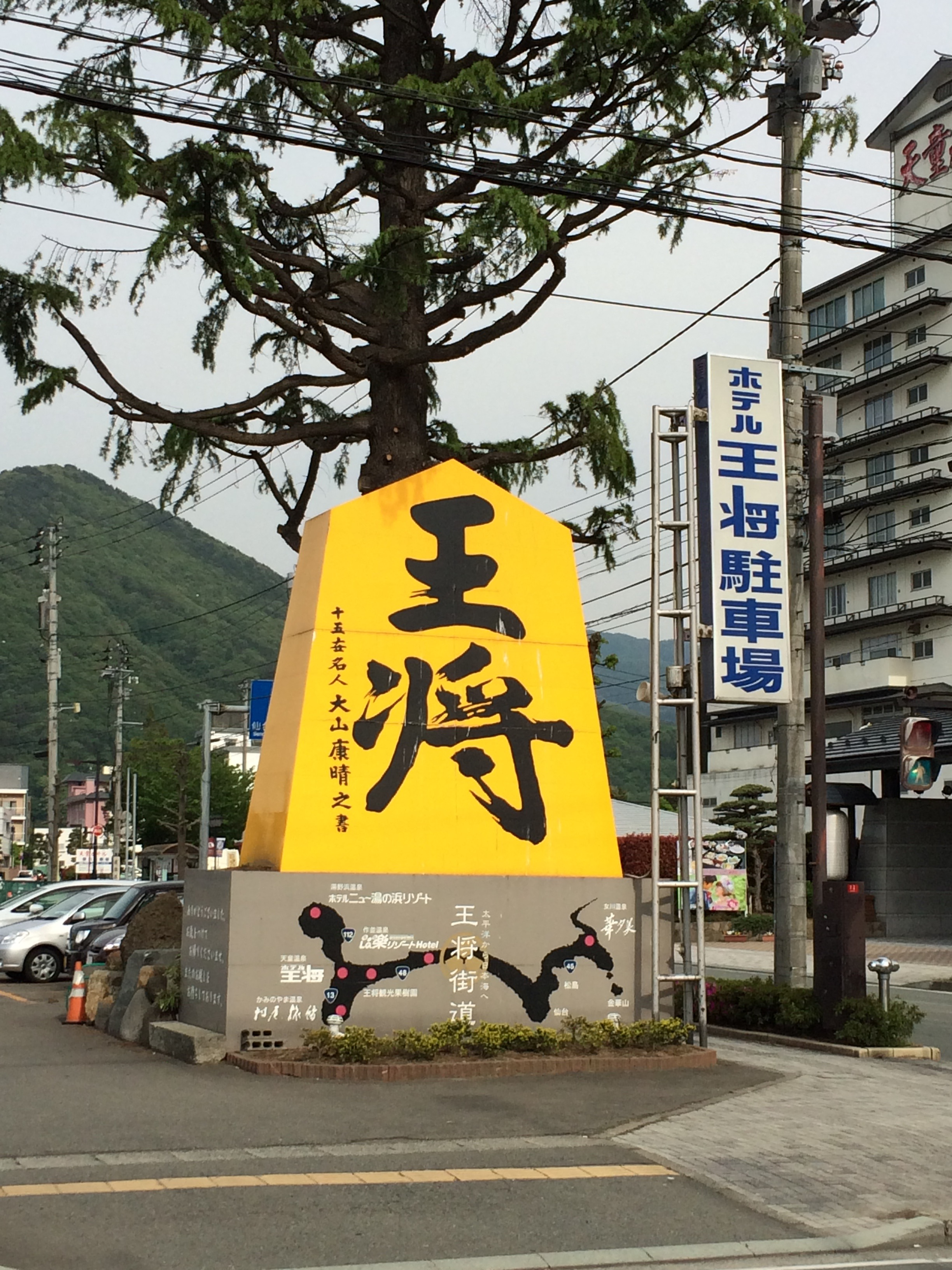 Giant Shogi Piece in Tendo